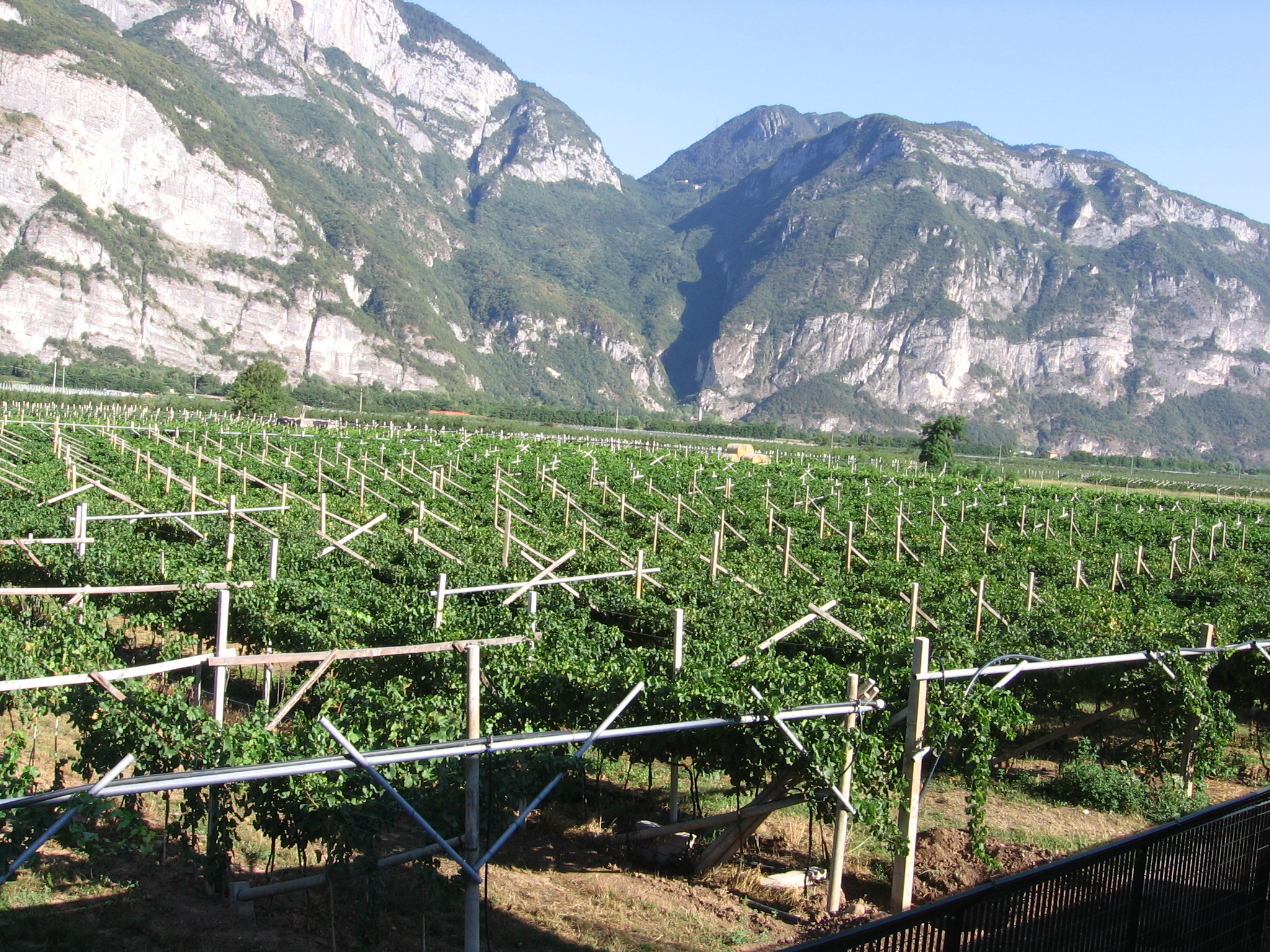 Vineyard near Brenner, Italy